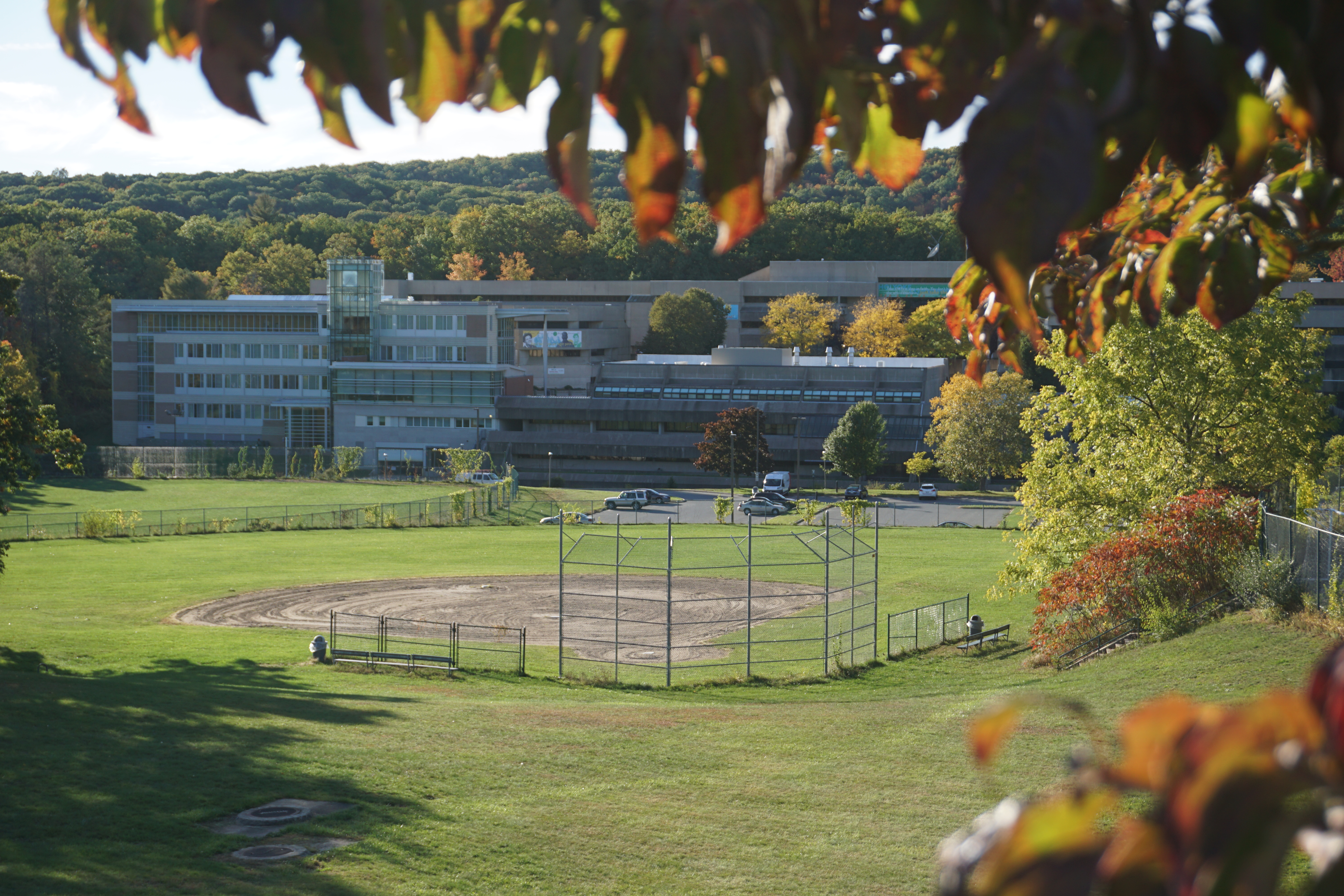 Sunny, evening day on campus.